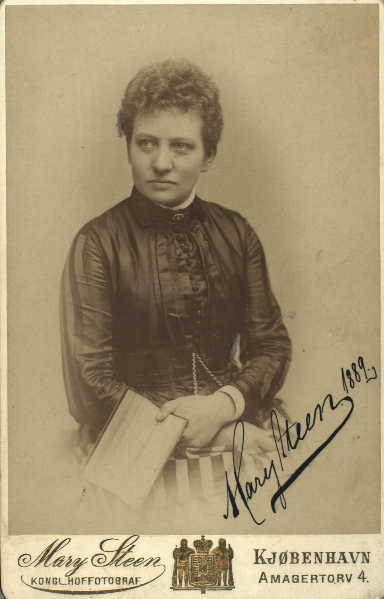 Self-portrait 1889 by Danish photographer Mary Steen (1856-1939)